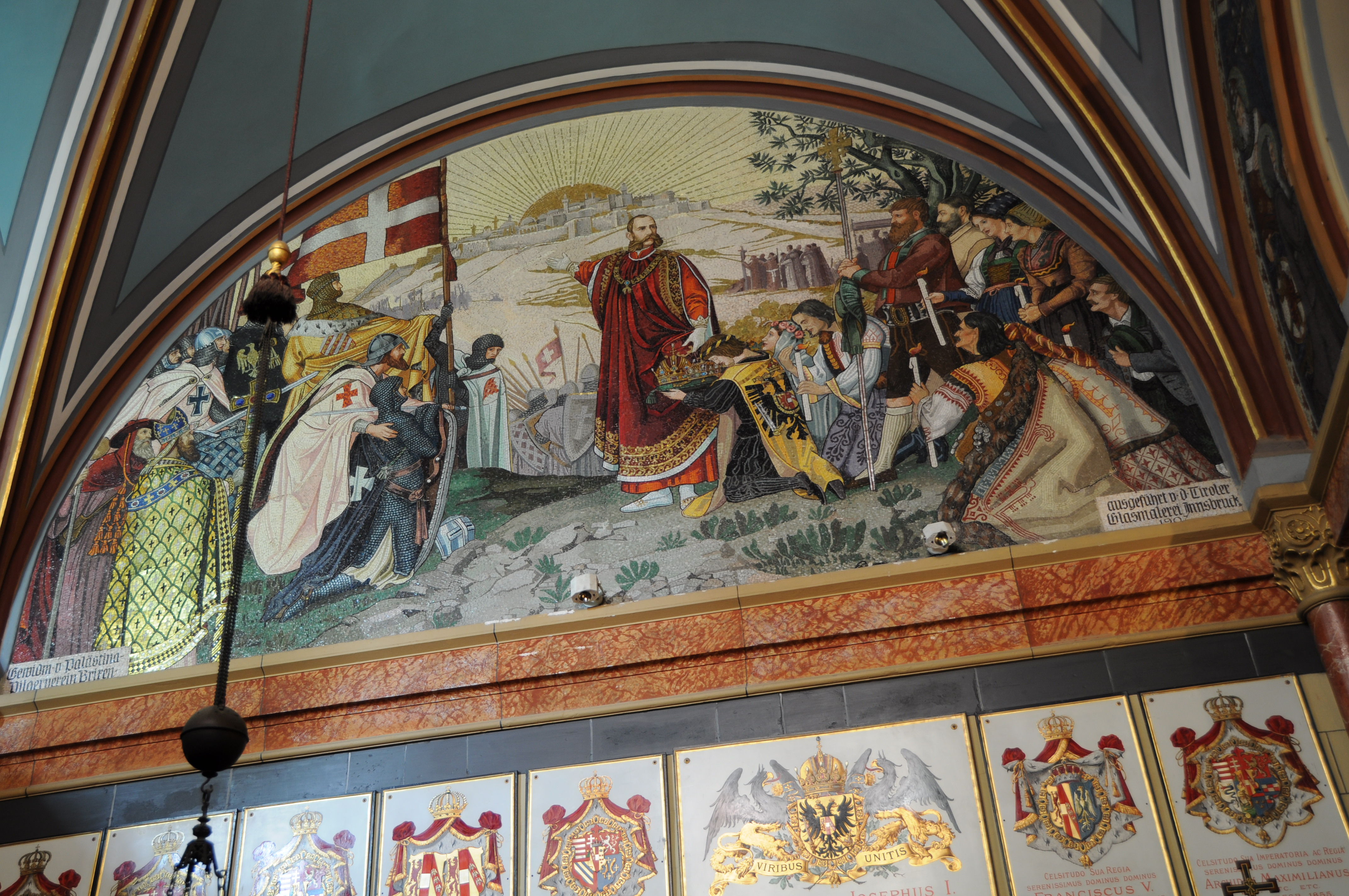 Mosaic "The Military and Peaceful Pilgrimages of Austria-Hungary to the Holy Land since Ancient Times" in the private chapel